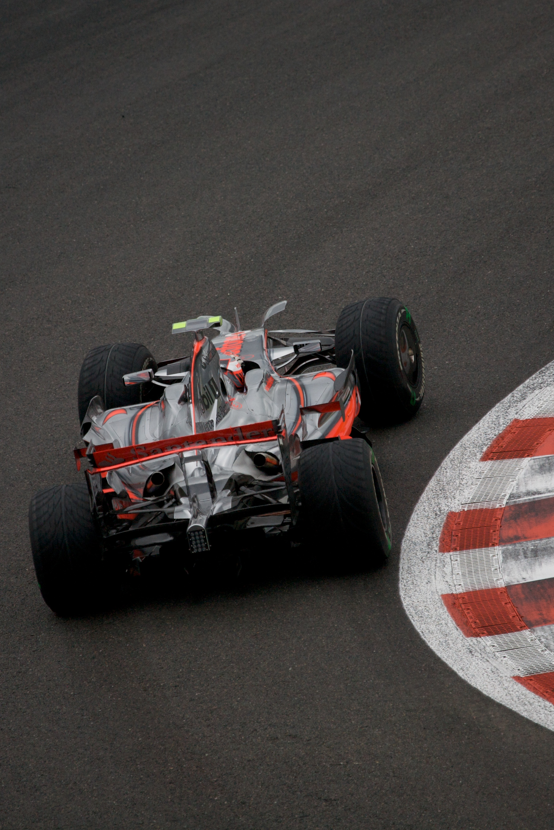 Heikki Kovalainen driving for McLaren at the 2008 Belgian Grand Prix.